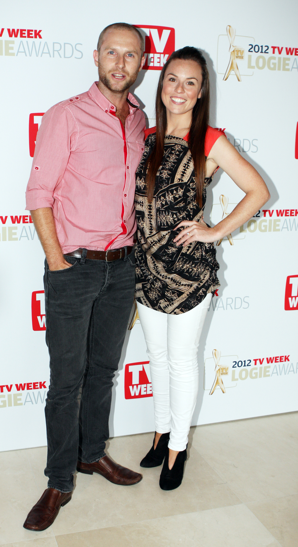 Australian reality television contestants Warwick "Waz" Jones and Polly Porter (from The Block) at the TV Week Logie Nominations in Sydney, Australia in March 2012.